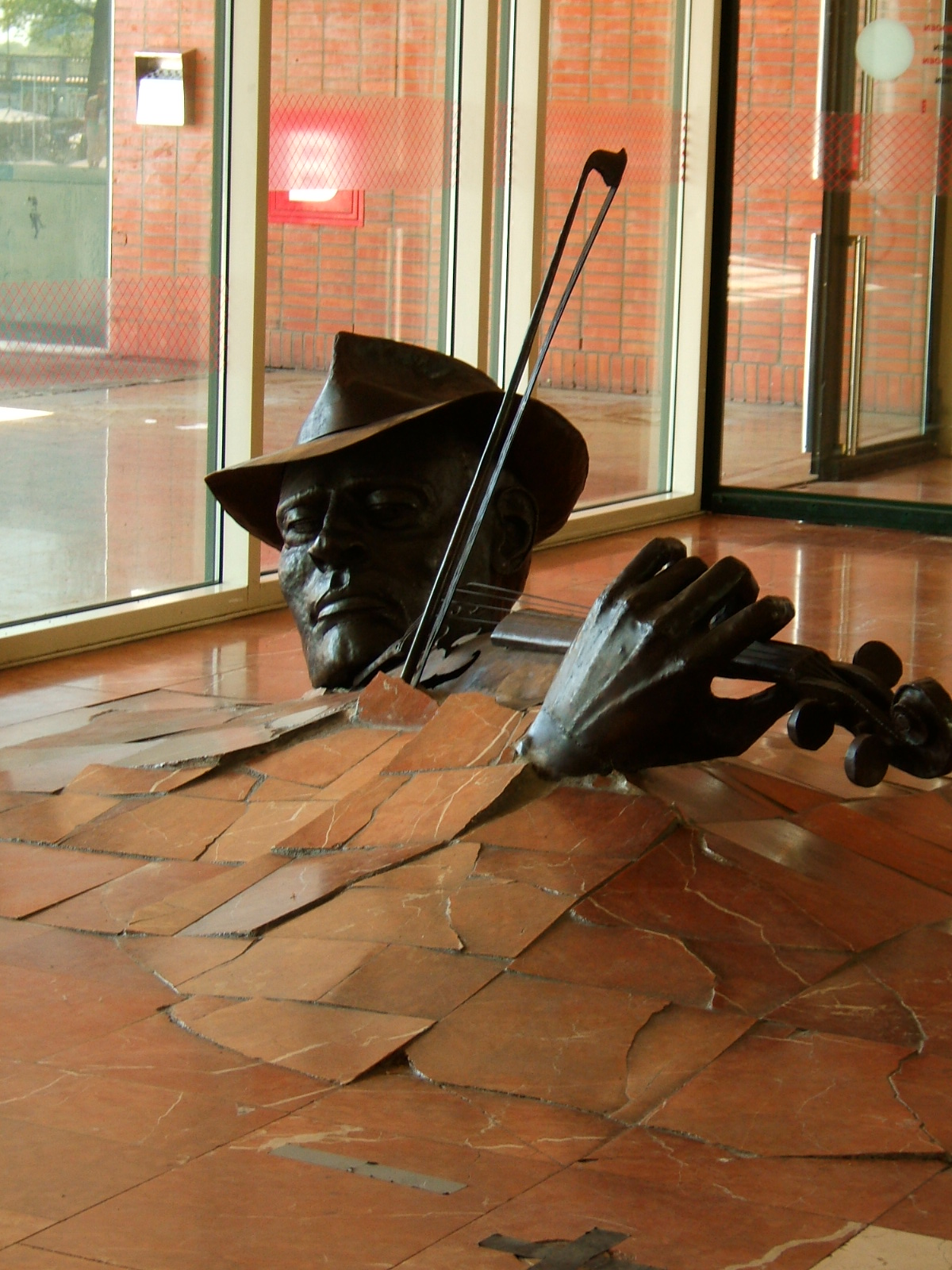 Sculpture The Violist by un unknown sculptor in the Stopera, Amsterdam/The Netherlands